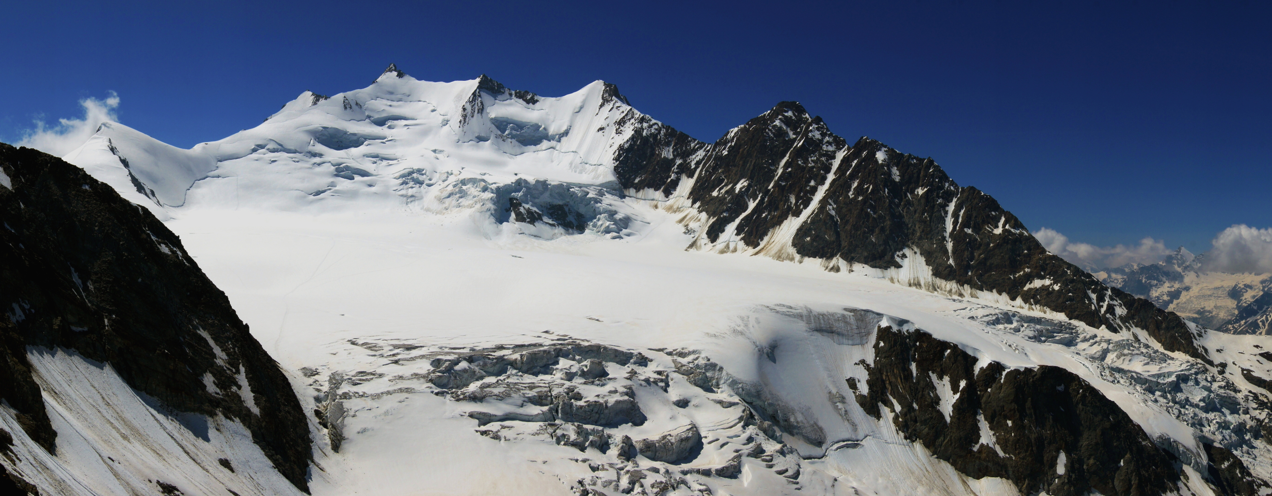 Nadelgrat in the Pennine Alps. With Lenzspitze, Nadelhorn, Stecknadelhorn, Hohberghorn and Dürrenhorn the ridge bears five four-thousanders.